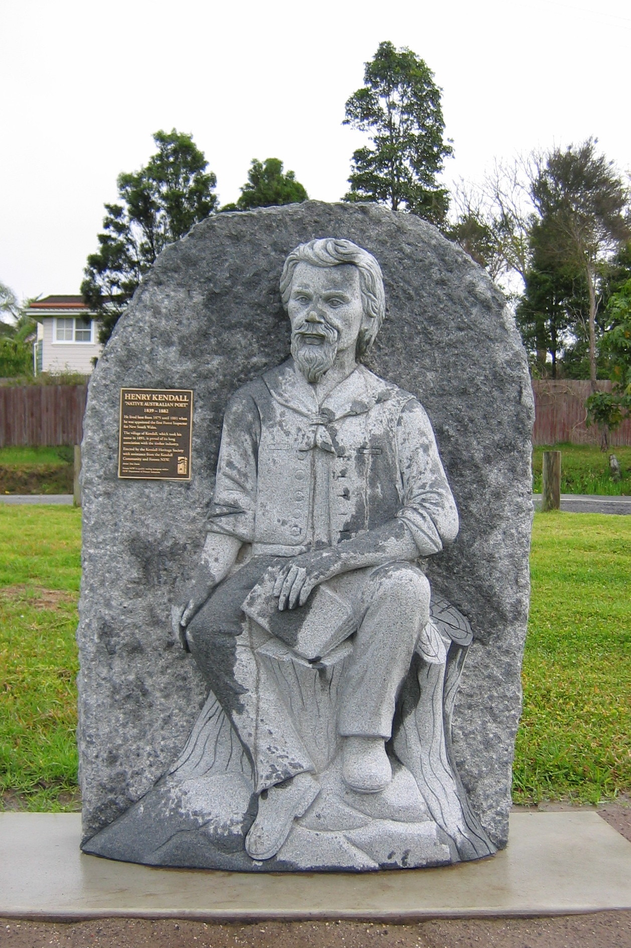 Photograph of statue of Henry Kendall, located in Kendall, taken in August 2007.